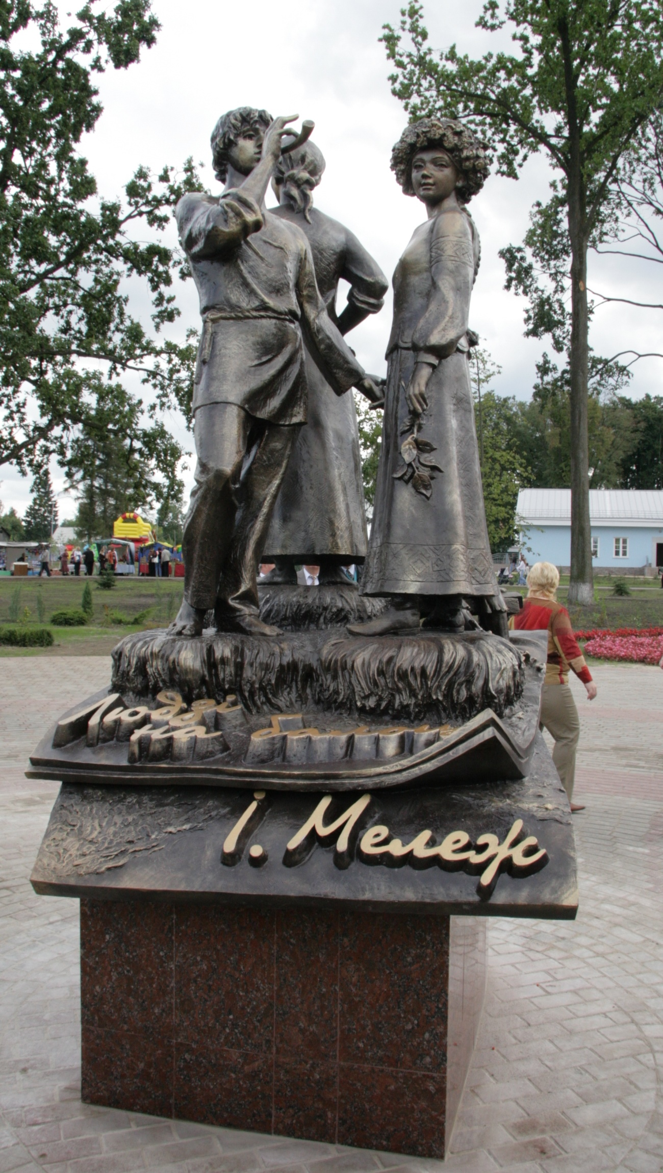 Monument to Ivan Melezha's book "People on a bog" in Khoiniki